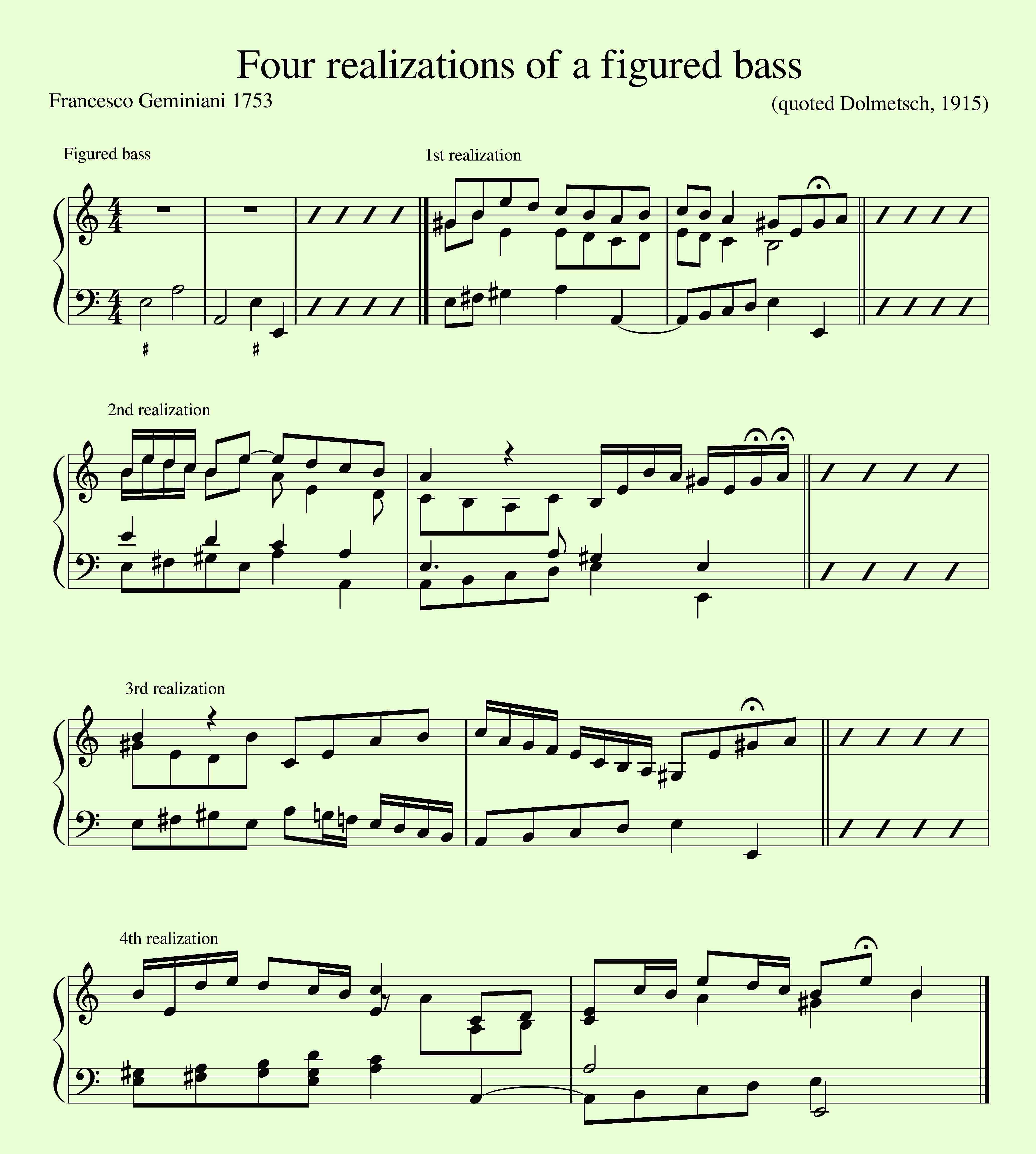 Four different realizations of a short fragment of figured bass by Francesco Geminiani. From hisThe Art of Accompaniment (1753), vol. 2. Quoted in Dometsch, 1915, 358-9.